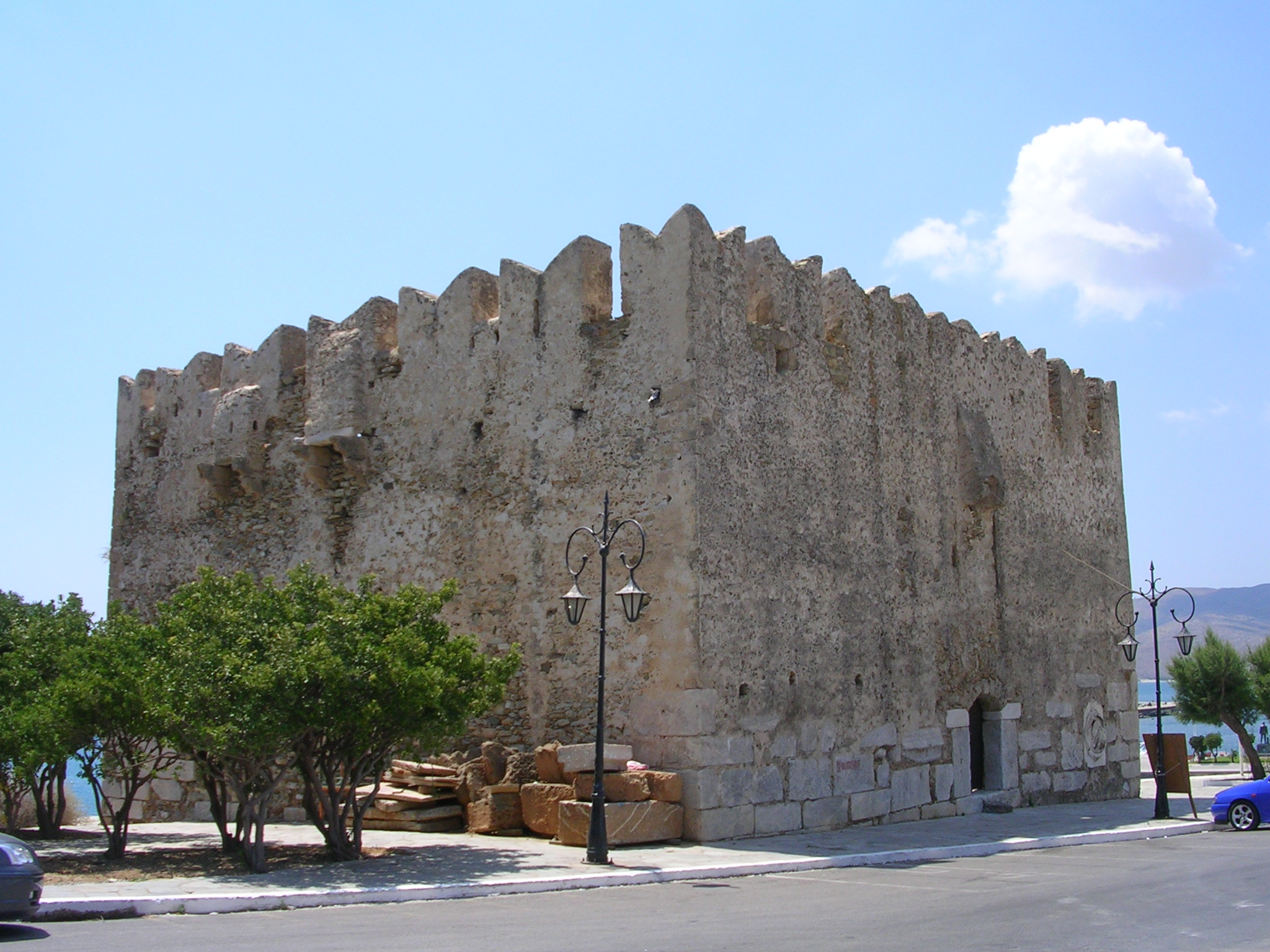 Bourtzi castle in Karystos.